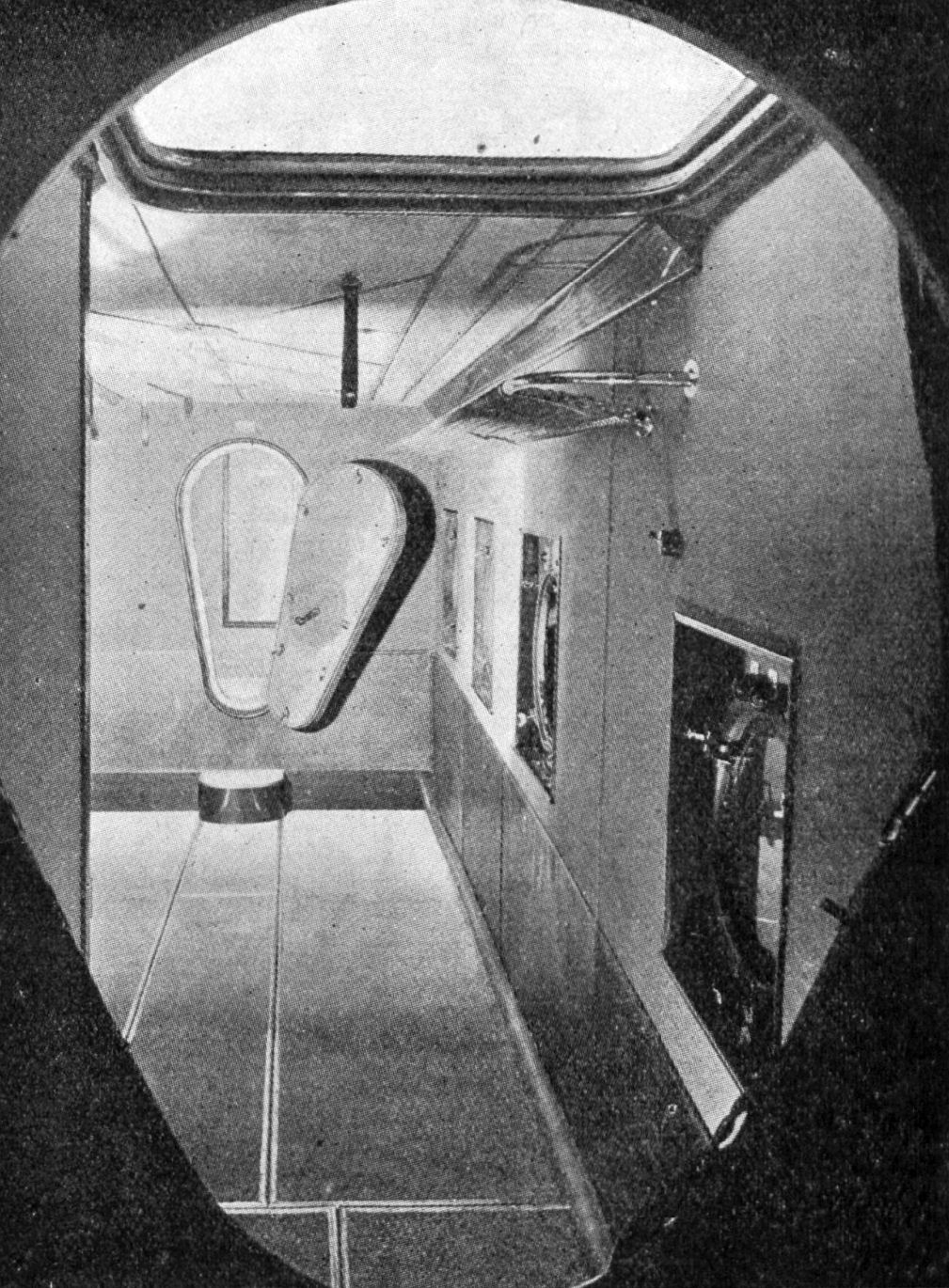 Rohrbach Rocco interior cabin photo from L'Aéronautique October,1927